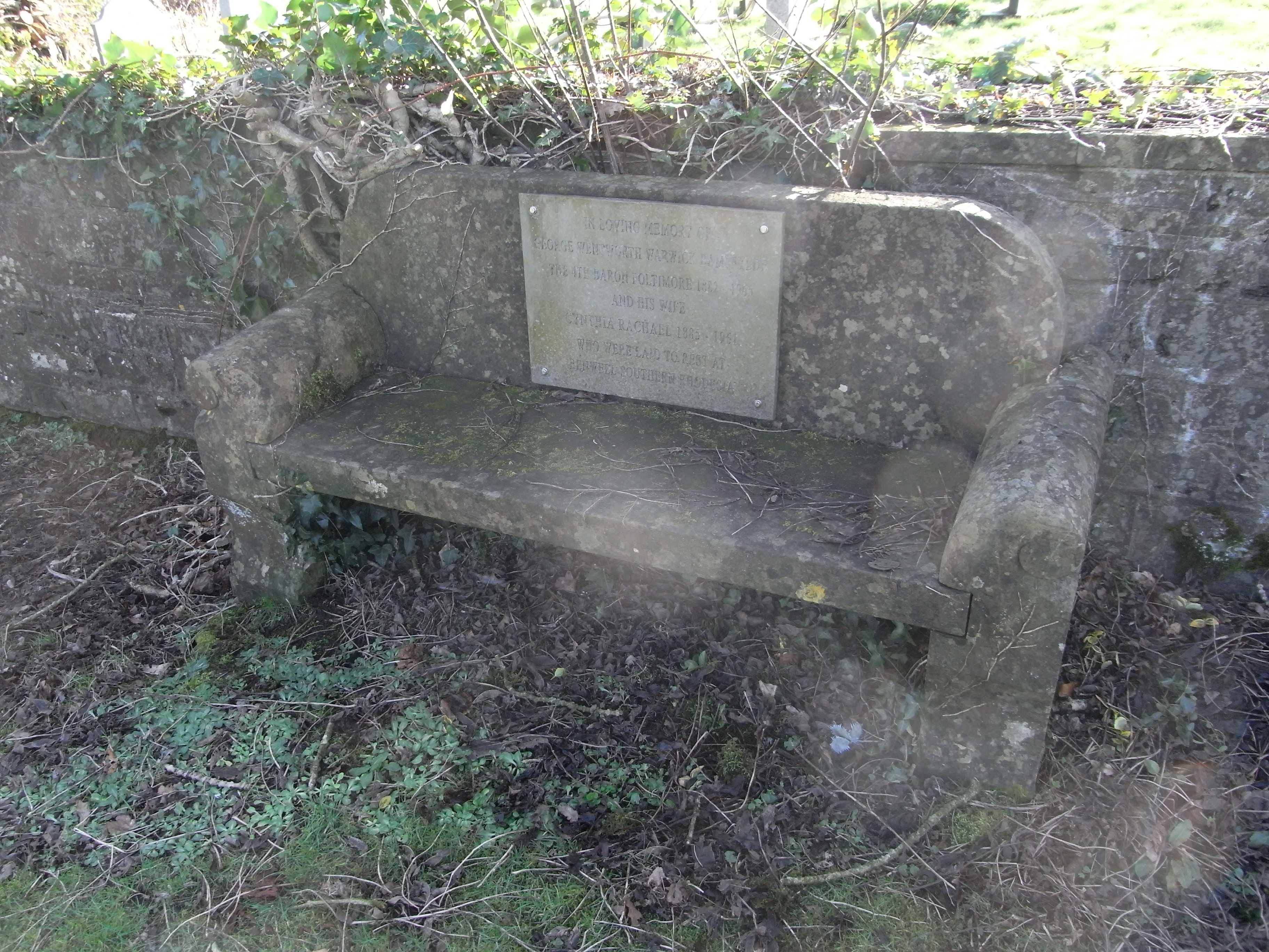 Stone memorial bench to George Wentworth Warwick Bampfylde, 4th Baron Poltimore (1882–1965) of Poltimore and Court House, North Molton, Devon, in the Bampfylde Memorial Garden, North Molton churchyard, created in memory of his only son and heir apparent Hon. (Coplestone) John de Grey Warwick Bampfylde (1914–1936). Inscribed: "In loving memory of George Wentworth Warwick Bampfylde the 4th Baron Poltimore 1882-1965 and his wife Cynthia Rachael 1885-1961 who were laid to rest at Benwell Southern Rhodesia". His son's death at the age of 23 caused the 4th Baron to lose heart and prompted him to emigrate to Rhodesia and to abandon his North Molton estate, held by his ancestors for 400 years, to which he never returned.